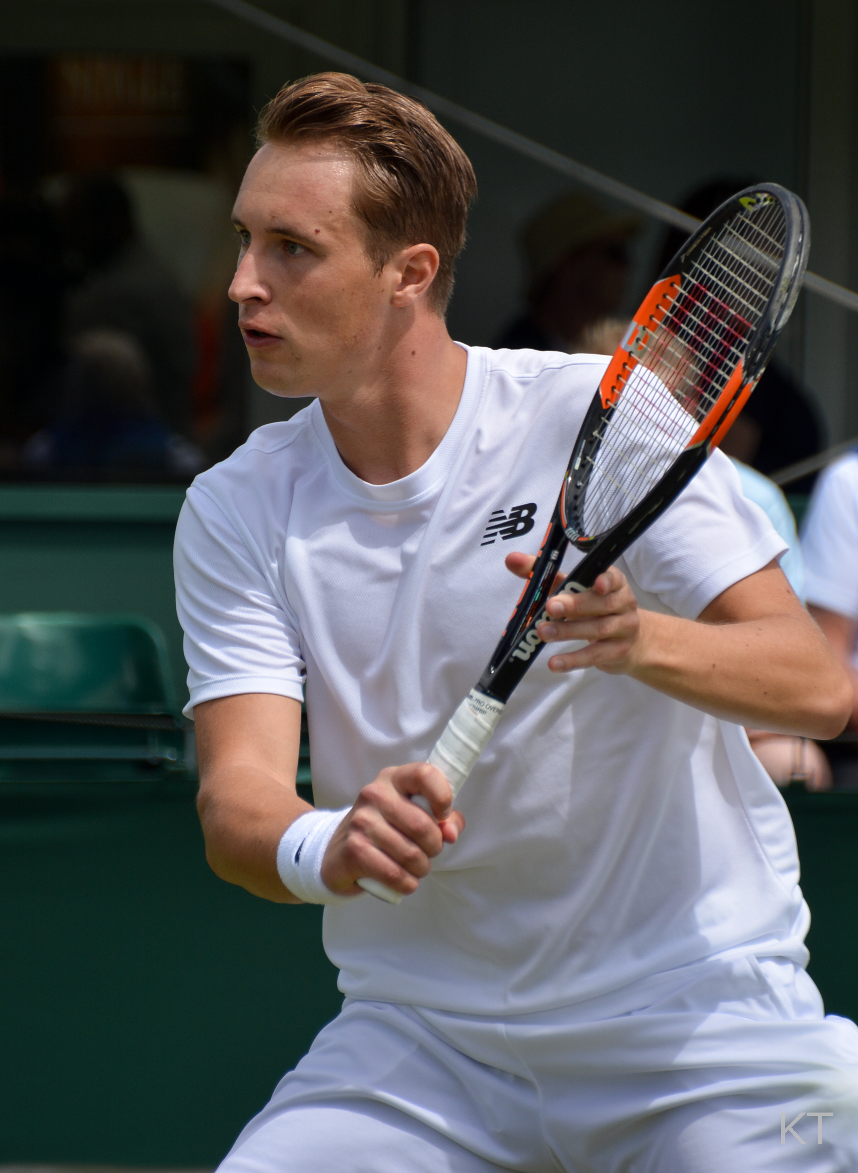 Middle Sunday of Wimbledon 2016.